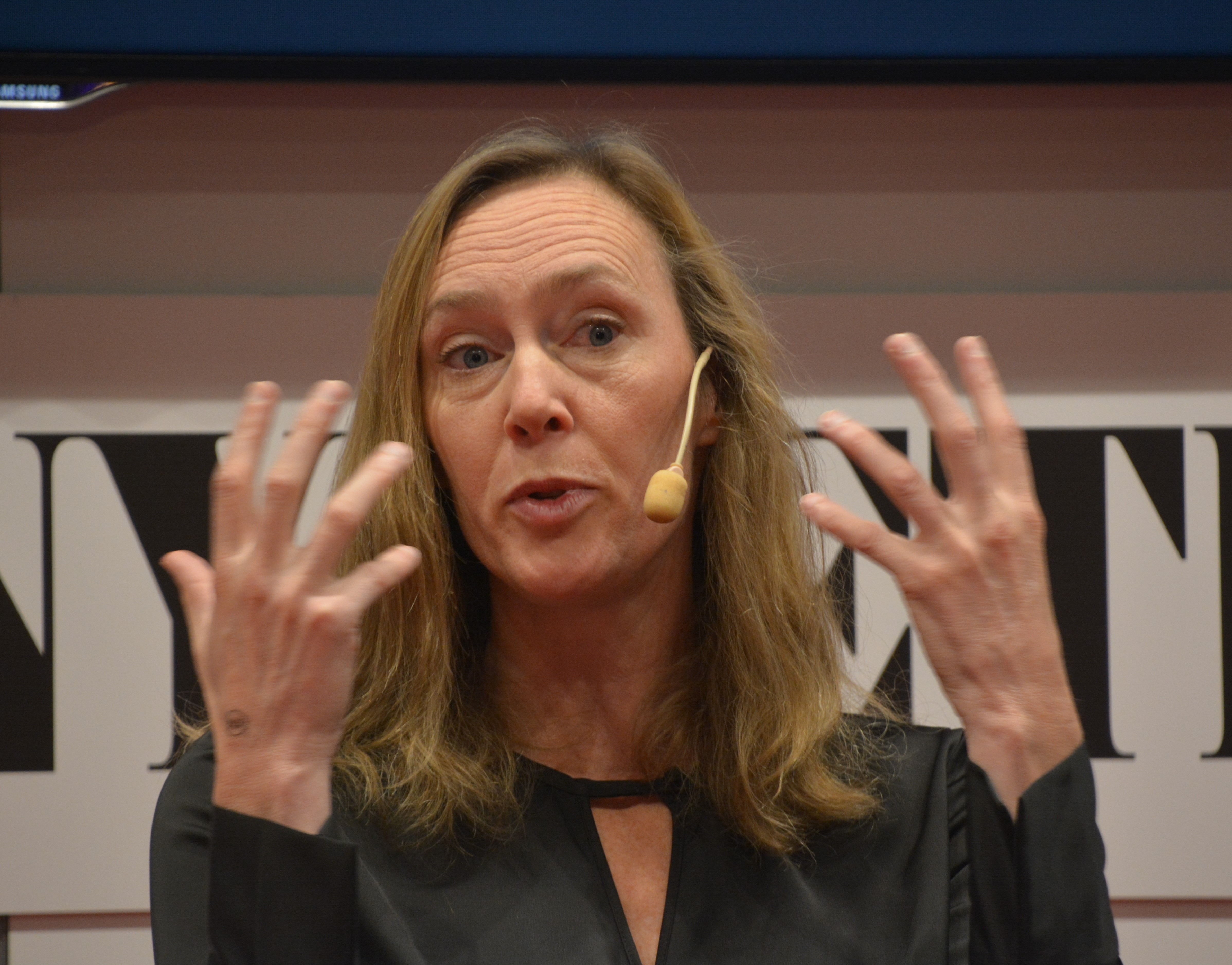 Jonna Bornemark at Göteborg Book Fair 2019